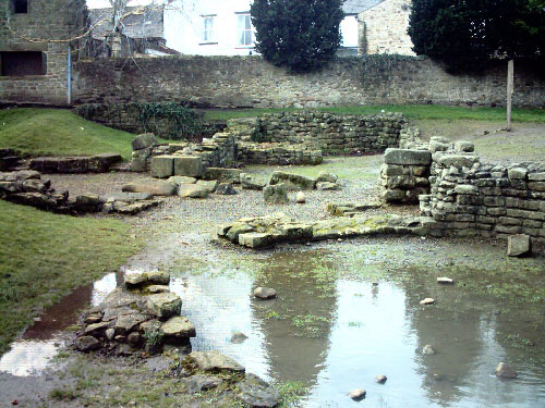 Ribchester Roman Bath Buildings